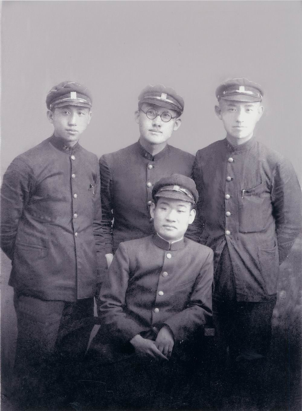 In the second row, Yun Dong-ju(right), Moon Ik-hwan(center)